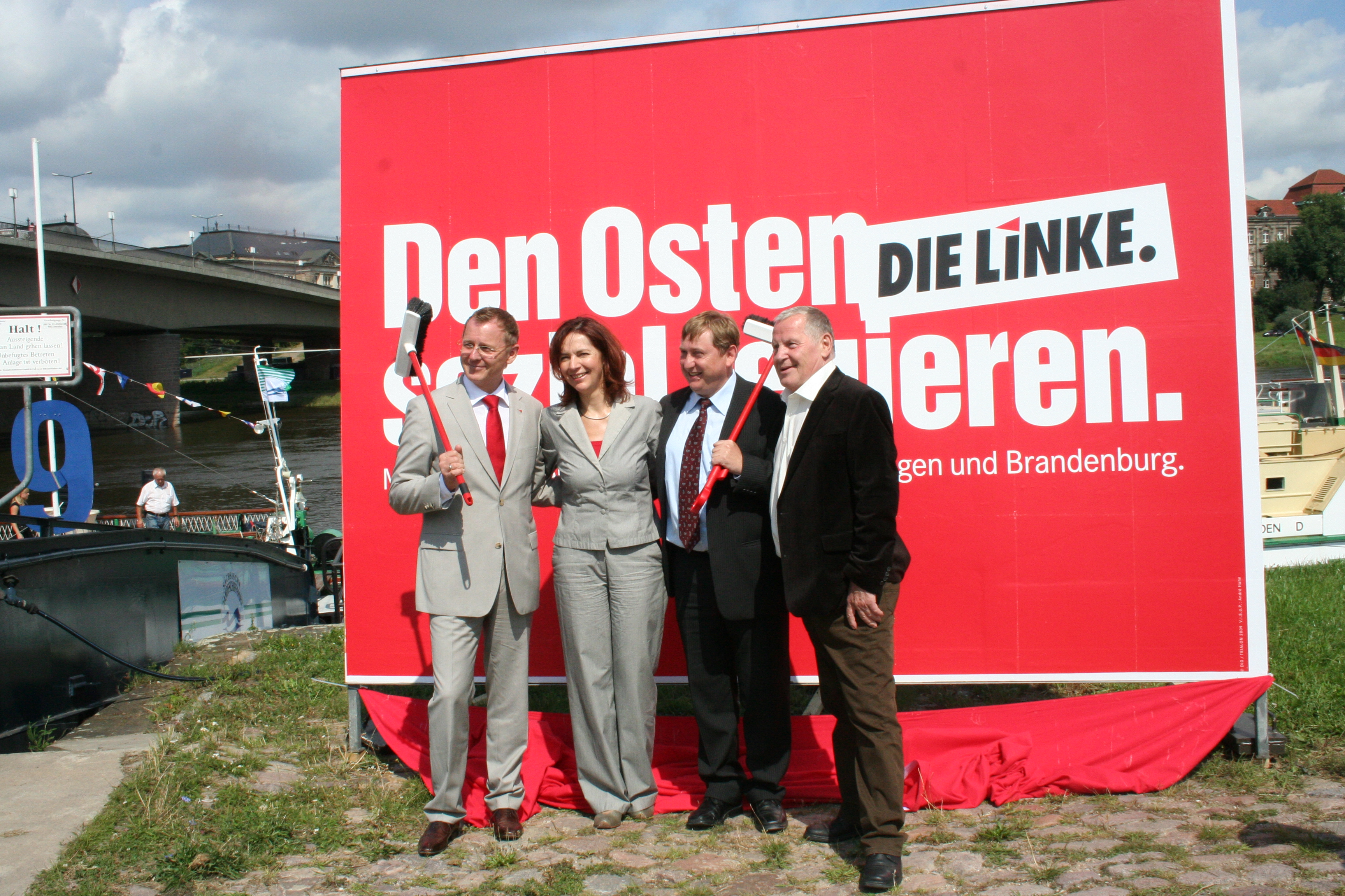 German Left Party politicians Bodo Ramelow, Kerstin Kaiser, André Hahn, and Lothar Bisky in Dresden